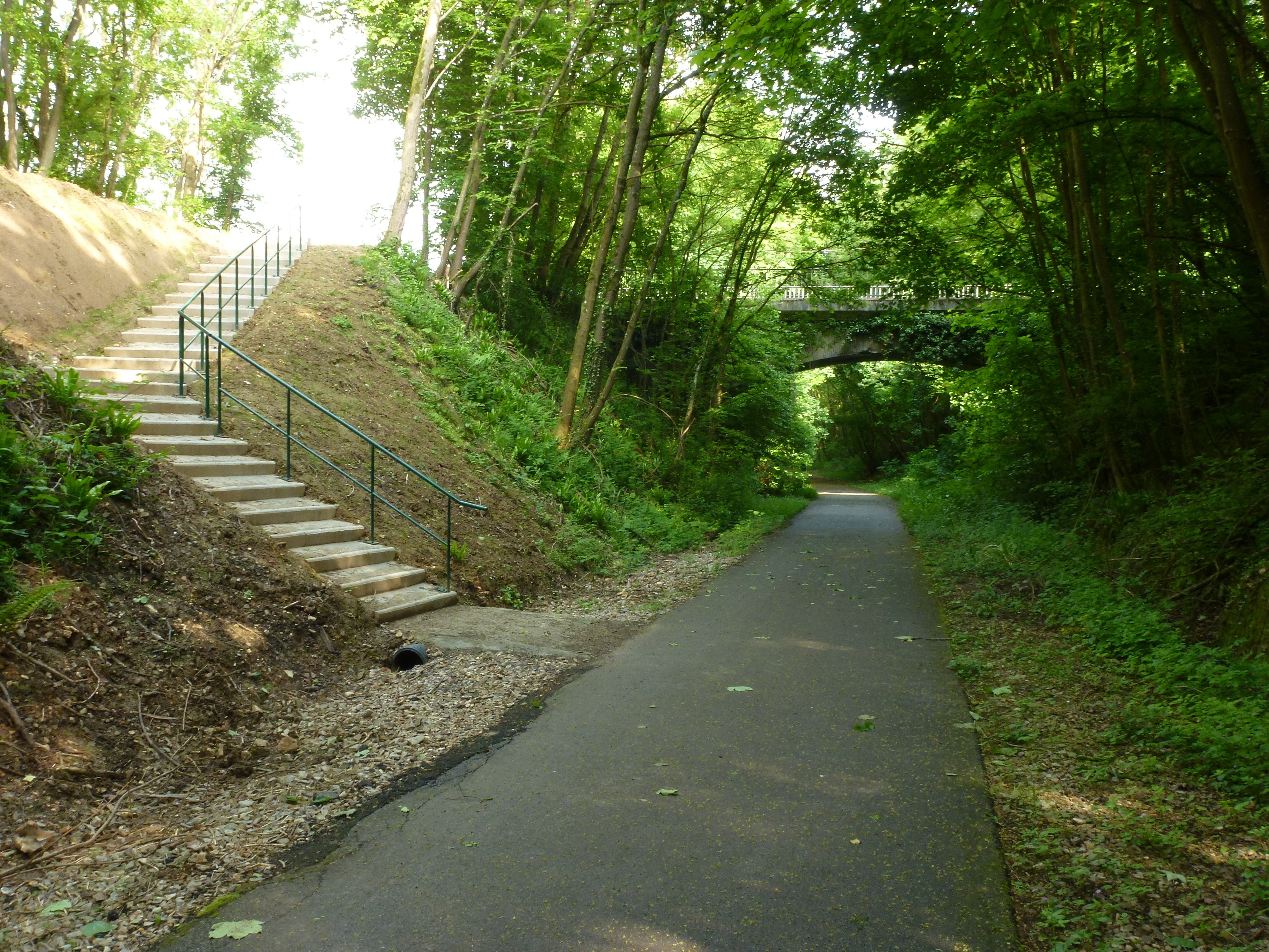 Voie verte Évreux-Vallée du Bec 03, Gauville-la-Campagne